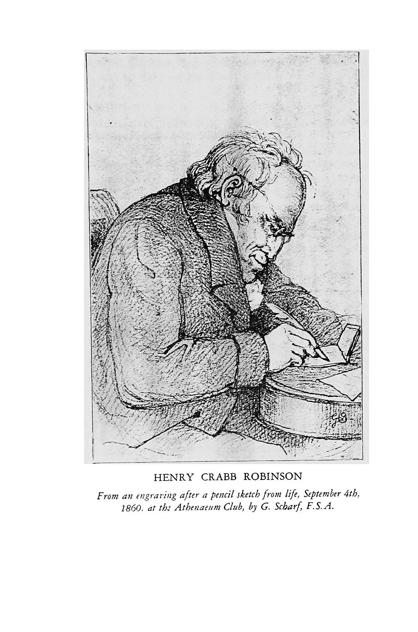 Illustration of the subject in Edith Julia Morley's Blake, Coleridge, Wordsworth, Lamb, etc., being selections from the Remains of Henry Crabb Robinson Manchester, The University press; London, New York [etc.] Longmans, Green & co. 1922 :) The caption is "From an engraving after a pencil sketch from life, September 4th, 1860. at the Athenaeum Club, by G. Scharf, F.S.A.